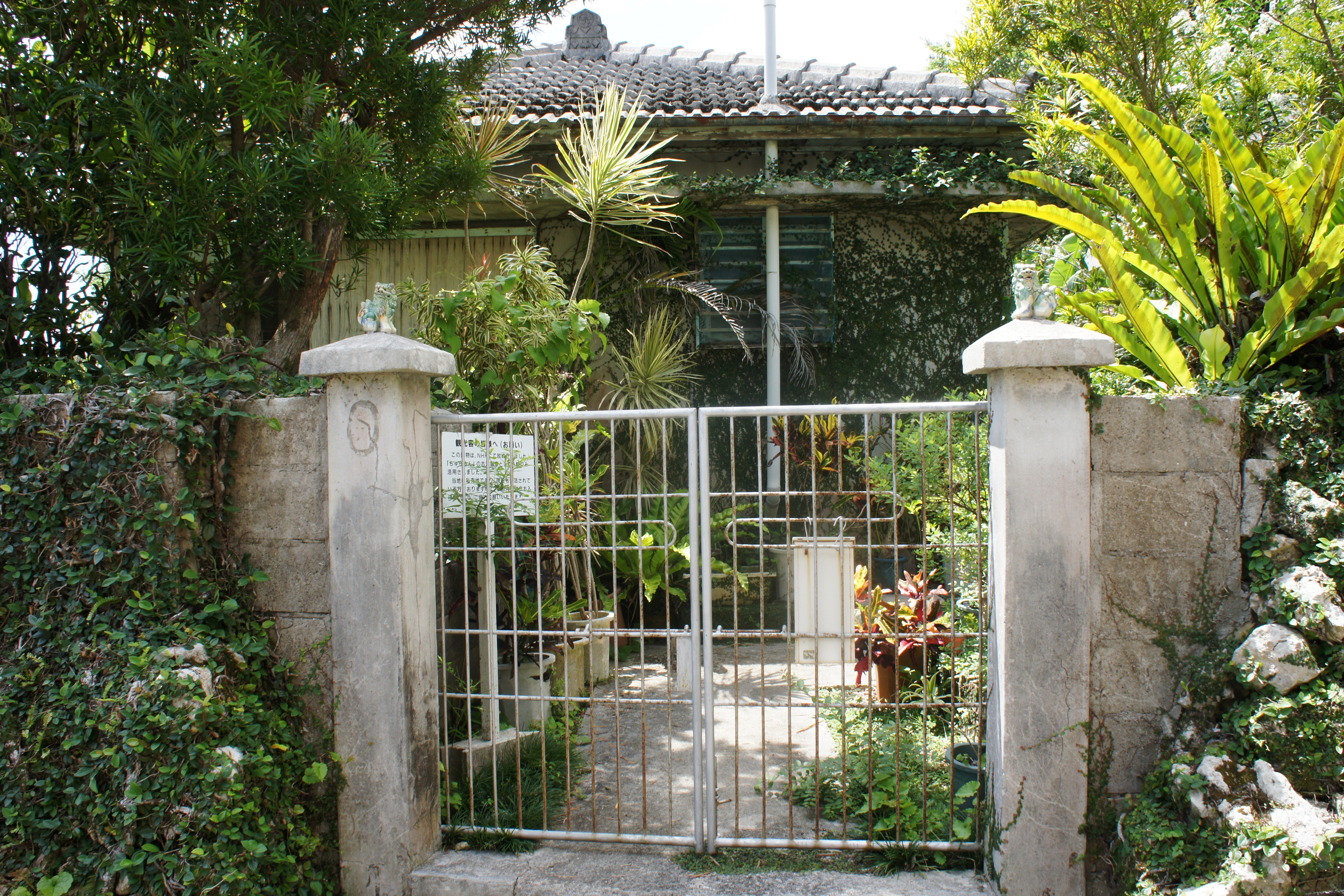 Shuri Kinjocho-ishidatami-michi in Naha, Okinawa prefecture, Japan